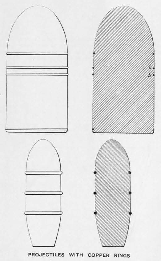 The obituaries of Josiah Vavasseur (1834-1908) described his different inventions. This illustration of the copper rings he invented for projectiles is from the periodical The Engineer November 20, 1908, page 536.